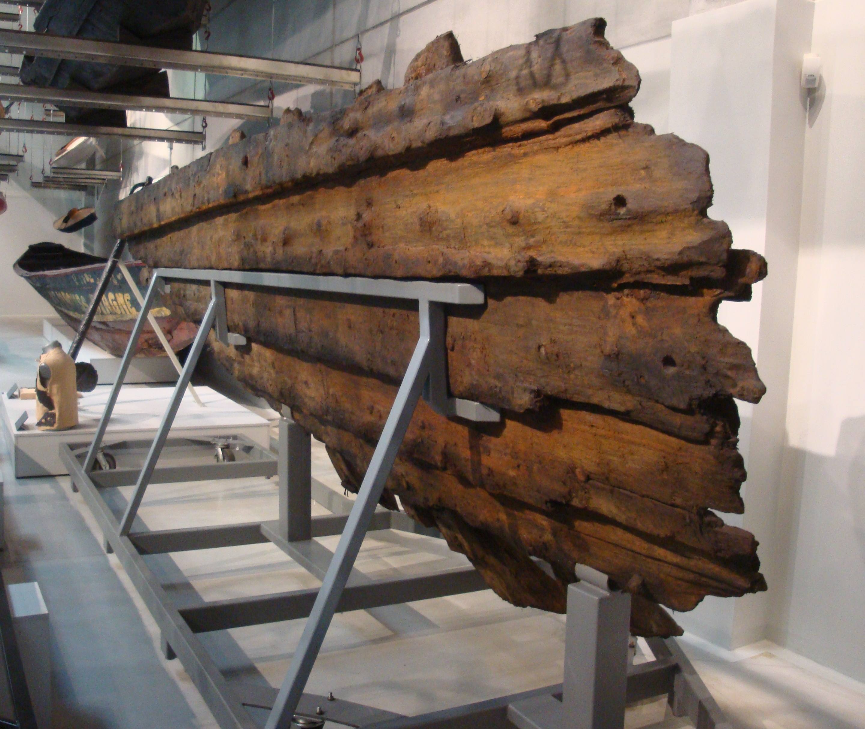 Part of side of Miedziowiec on exhibition in Centrum Konserwacji Wraków Staków (Shipwreck Conservation Centre) in Tczew, Poland. "Miedziowiec" (The Copper Ship) - wreck of medieval ship, which sunk in 1408. Discovered in 1969, delivered many valuable artefacts.